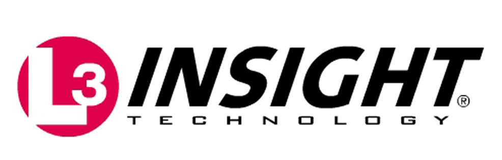 Logo L-3 Insight Technology